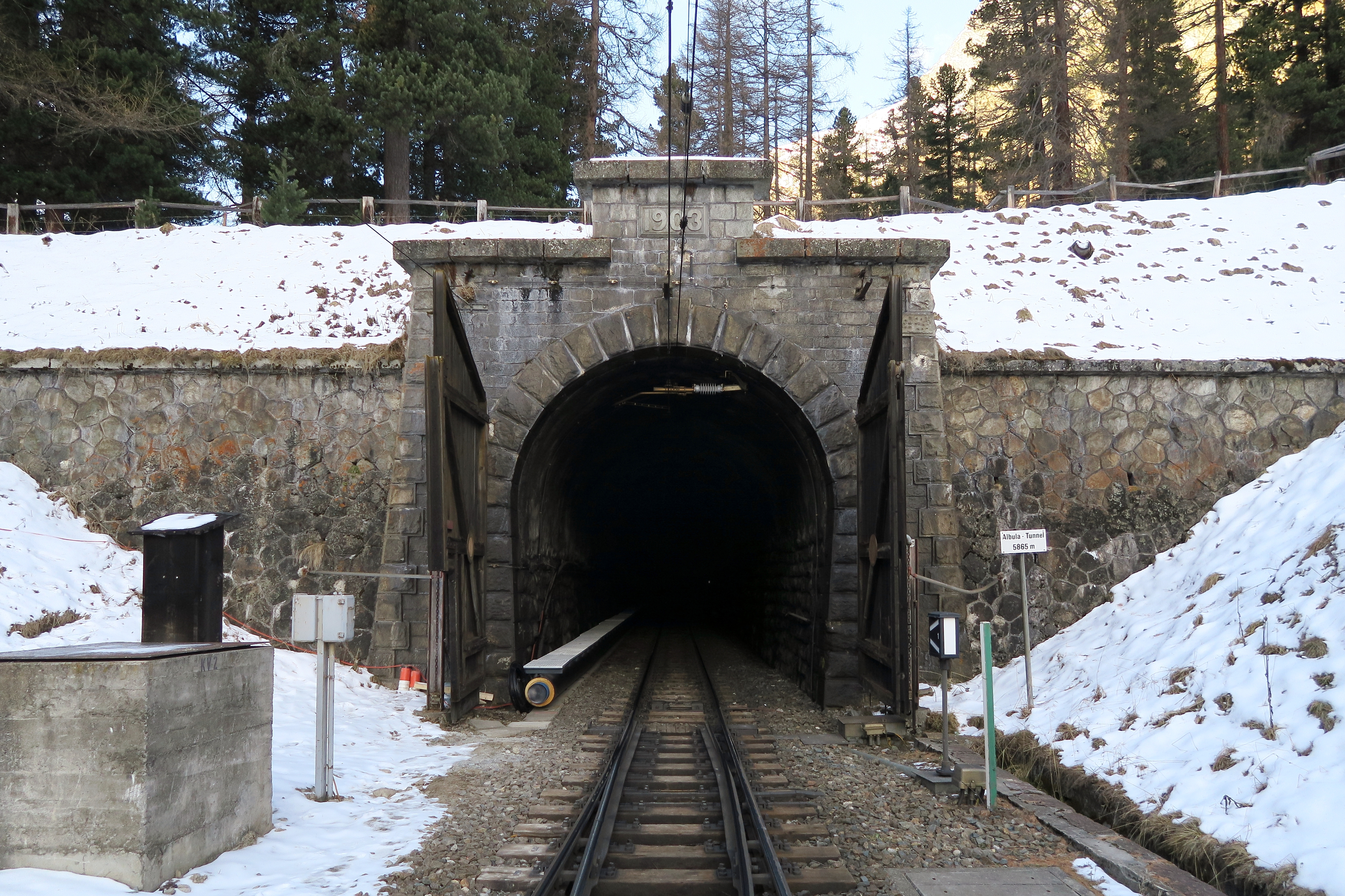 The portal to the Engadin on the south side of the 5865 m long Albula tunnel. Just a few meters to the right a new portal will be created. Although the old and the new tunnel will be in a side distance of 30 m, but the portals are closer to each other. Switzerland, Dec 25, 2014.